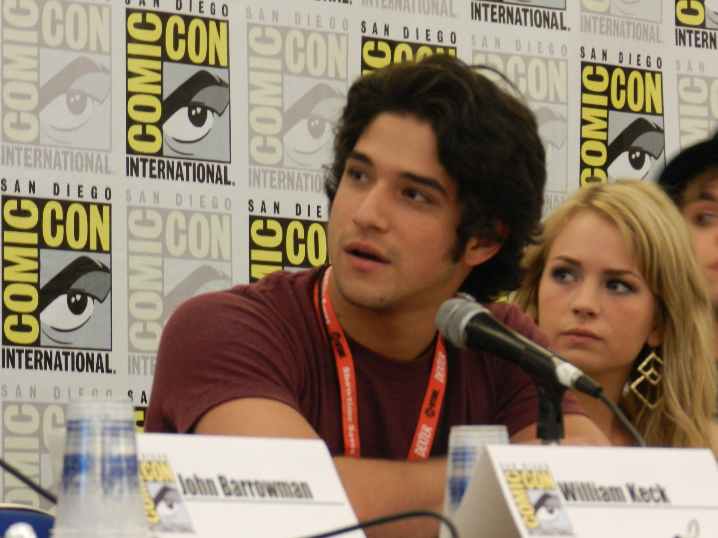 Tyler Posey at the Comic-Con 2011.